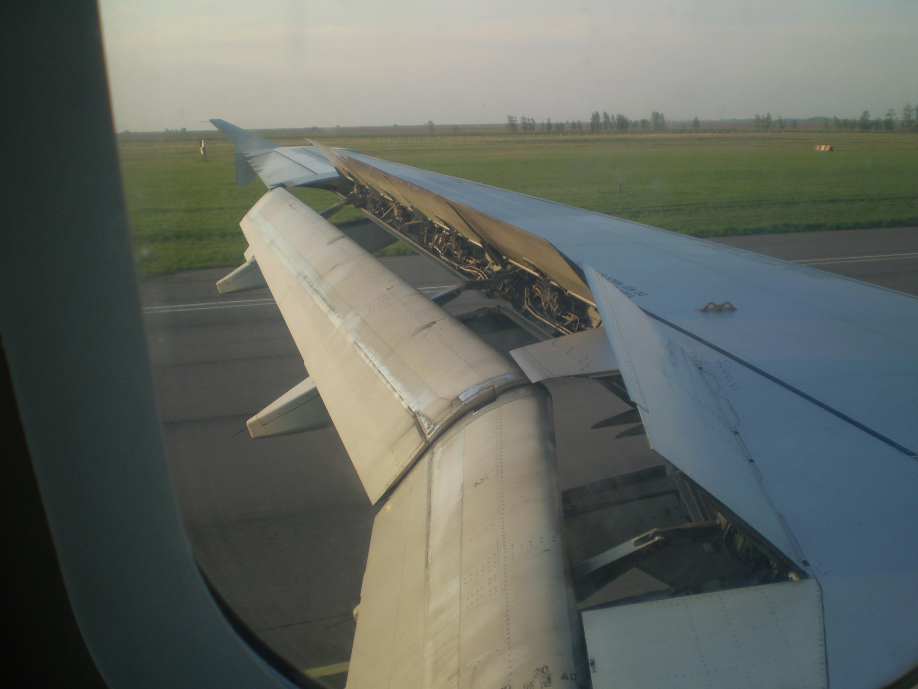 Airbus A319 left wing during the landing. S7 Airlines, Moscow-Pavlodar. May 2009